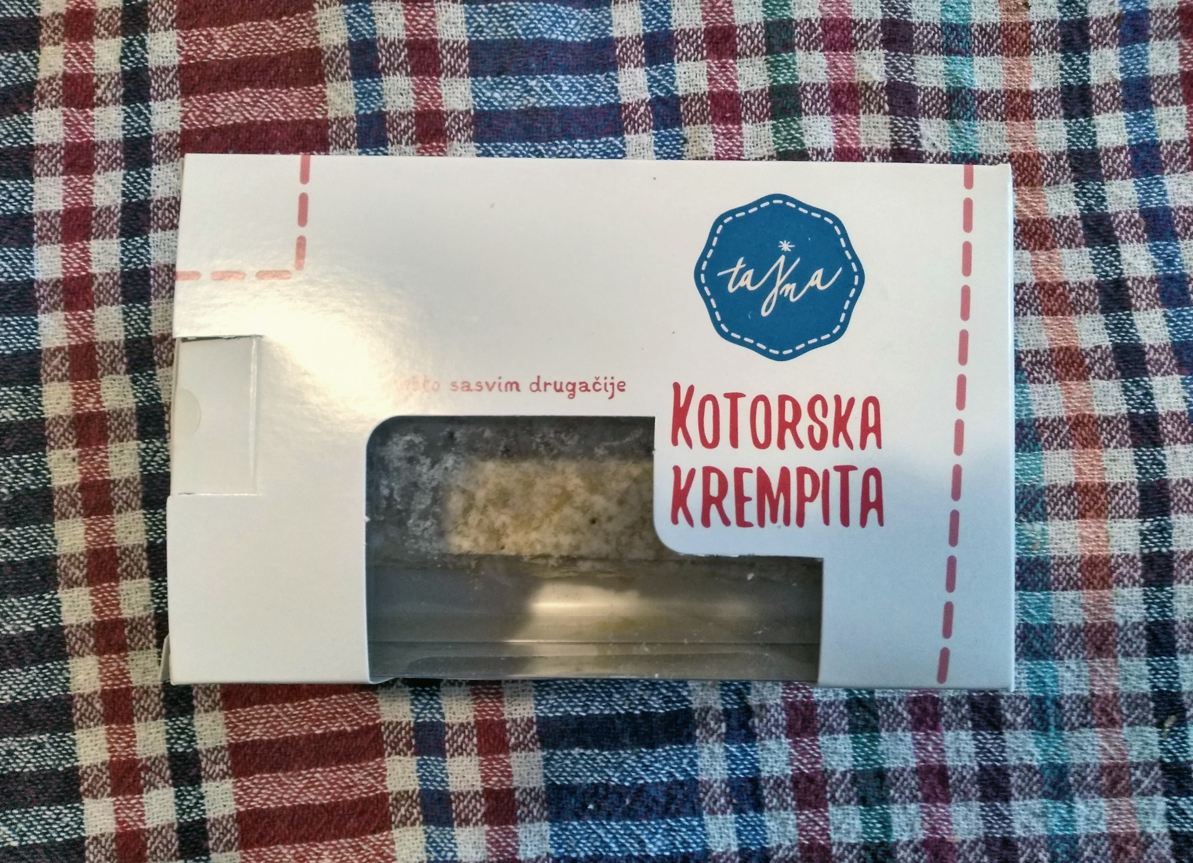 Kotor Cremeschnitte with three layers of dough and two layers of cream